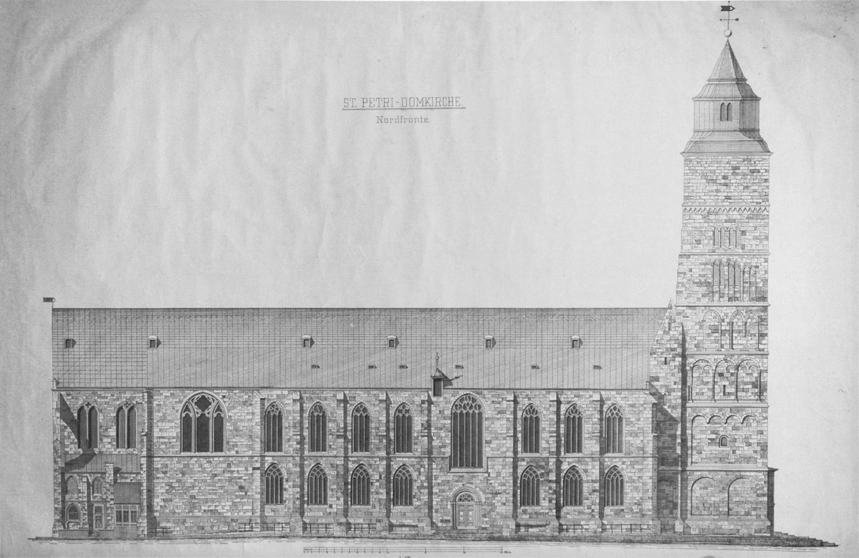 Western façade of Bremen Cathedral, drawn before 1887, documentation of the base for the architectural contest for the restoration of the cathedral